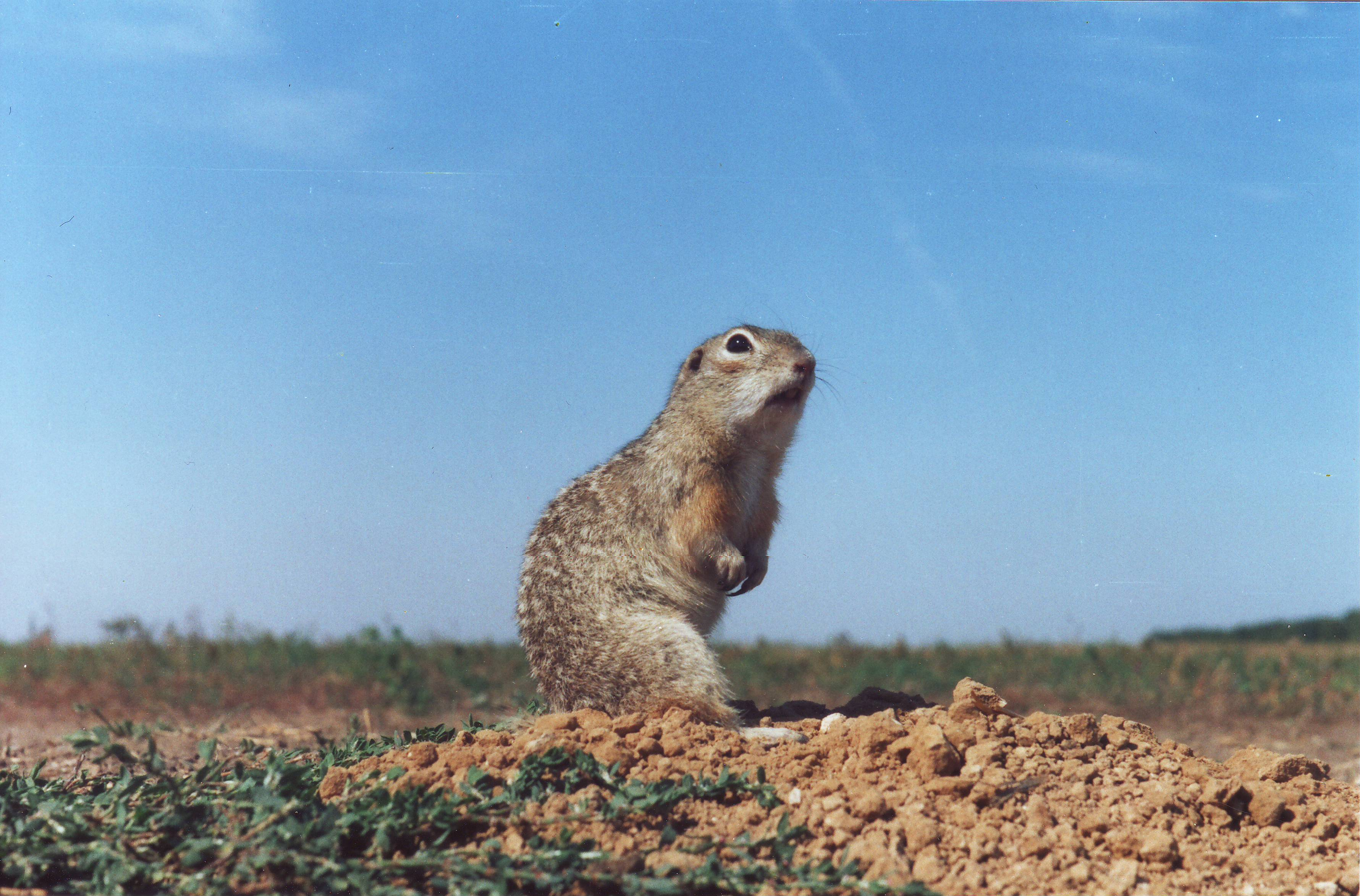 Speckled ground squirrel near its burrow. Odesa oblast, Ukraine.